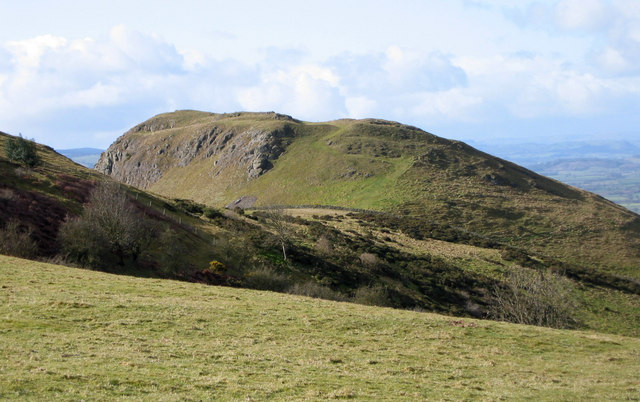 Roundton Hill Roundton Hill, rising to 370 metres, is declared an official National Nature Reserve due to its unusual volcanic geology, with its exposed rocks and rare flora.